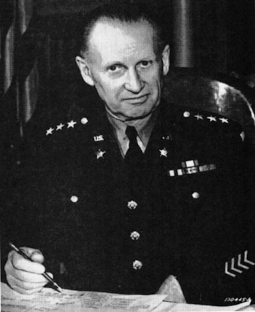 Lt. General Lesley J. McNair, the highest-ranking American officer to be killed (by friendly fire) during World War Two